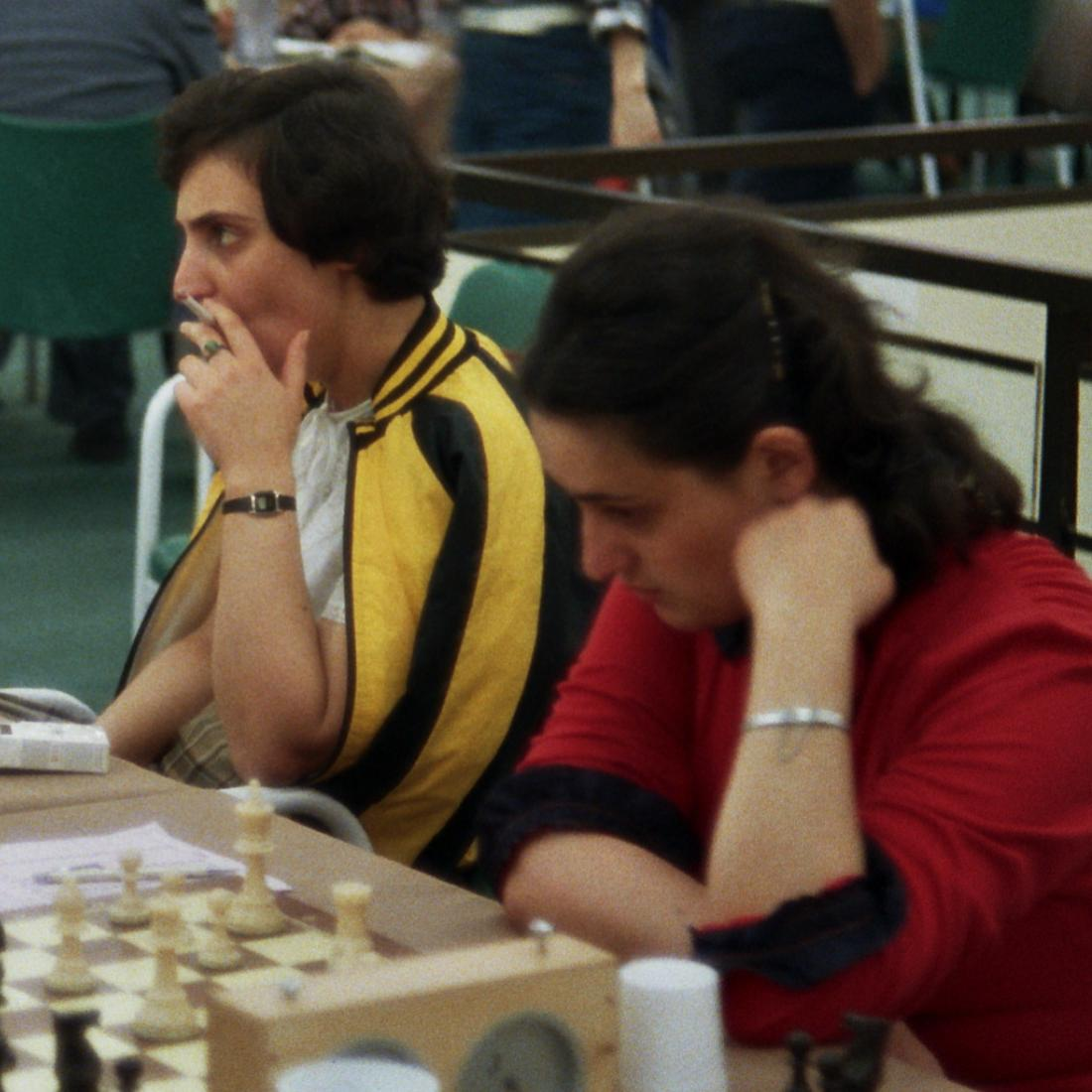 Irina Levitina and Maja Tschiburdanidse, Chess Olympiad 1984 in Thessaloniki, Photographer Gerhard Hund.